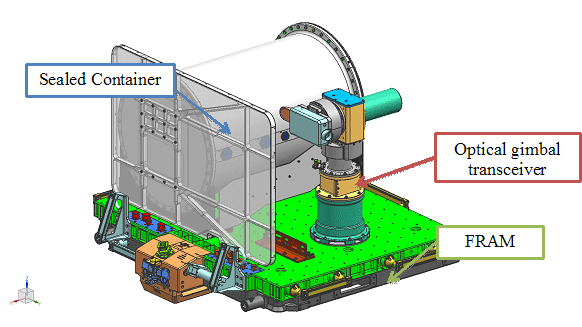 Flight System: The flight system is composed of three main elements: Sealed Container: houses all of the commercial-of-the-shelf (COTS) avionics boards, the laser, and custom power board pressured at 1 atmosphere with air. Connected to optical gimbal transceiver via cable feedthroughs. Optical gimbal transceiver: an optical head that contains an uplink camera and laser collimator for the downlink sits on a two-axis gimbal. Flight Releasable Attachment Mechanism (FRAM): both the sealed container and Optical gimbal transceiver sit on the FRAM, which provides a standard mechanical and electrical interface to both the ISS and the launch vehicle.